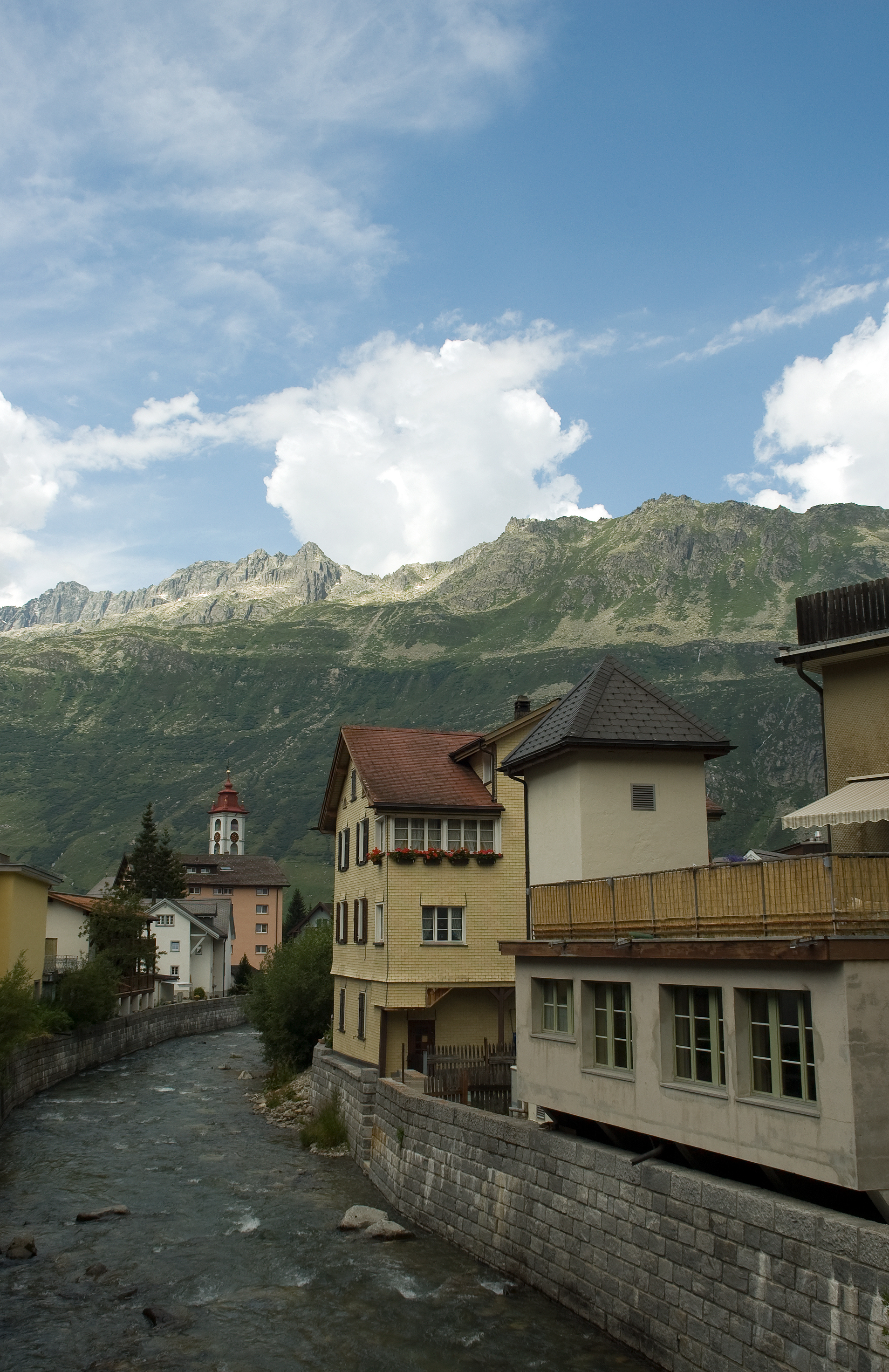 View from Andermatt to the mountains.